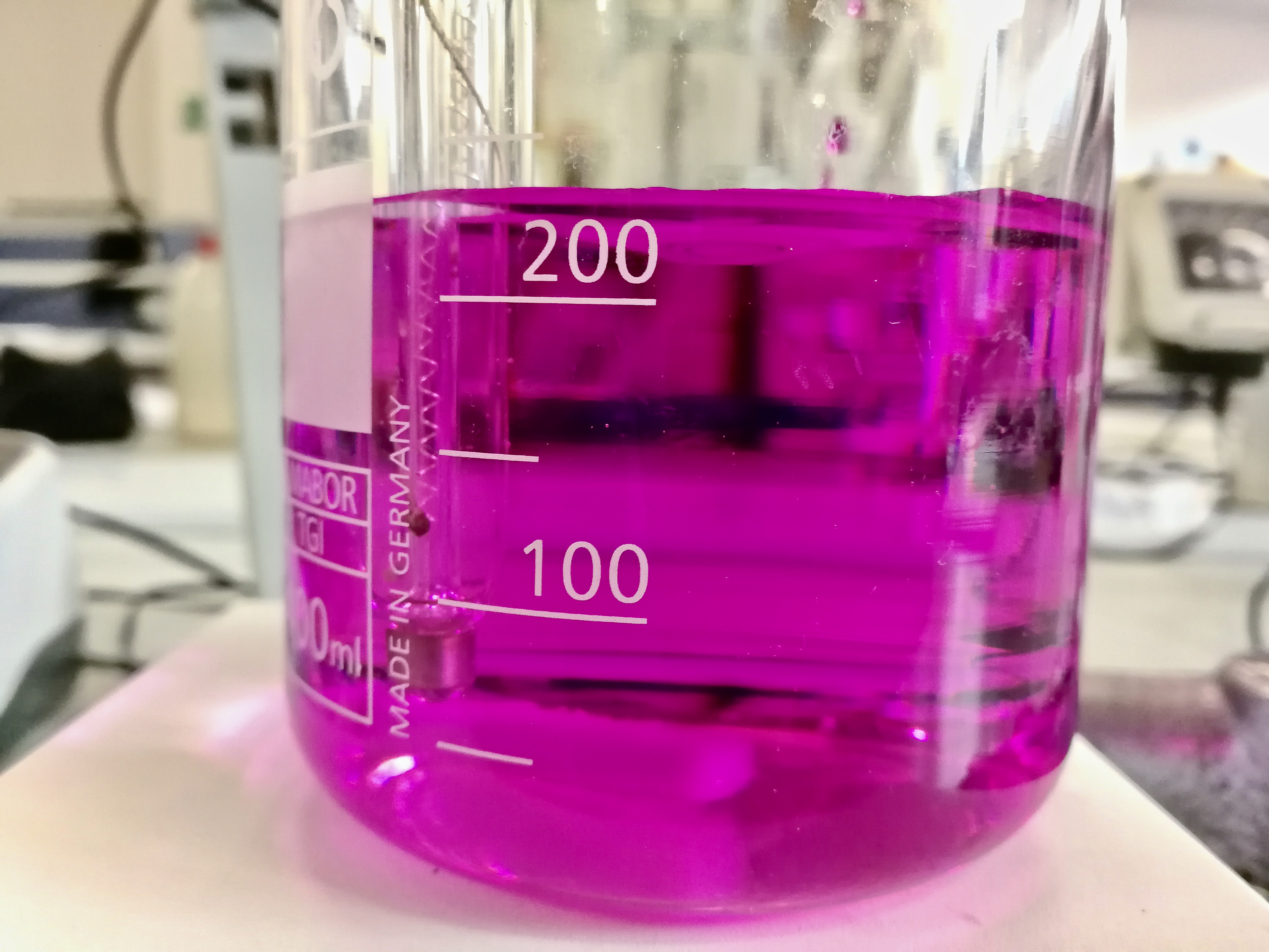 it is a redox potentiometric titration with the use of potassium permanganate and Mohr salt